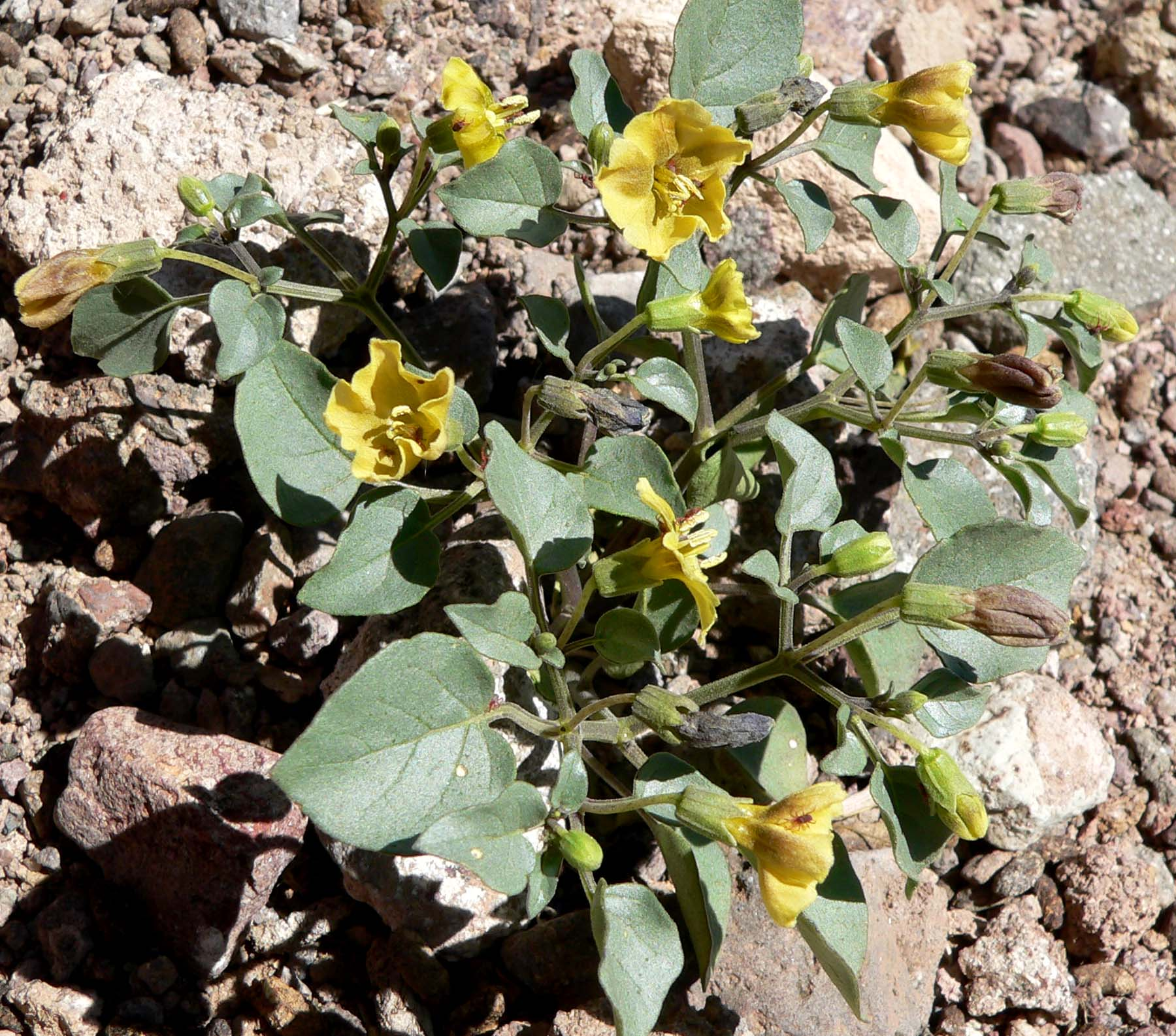 Photo of Physalis crassifolia (thick-leaved ground cherry) in Nelson Canyon, Clark County, Nevada